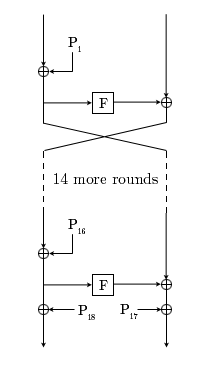 Diagram of the Blowfish cipher